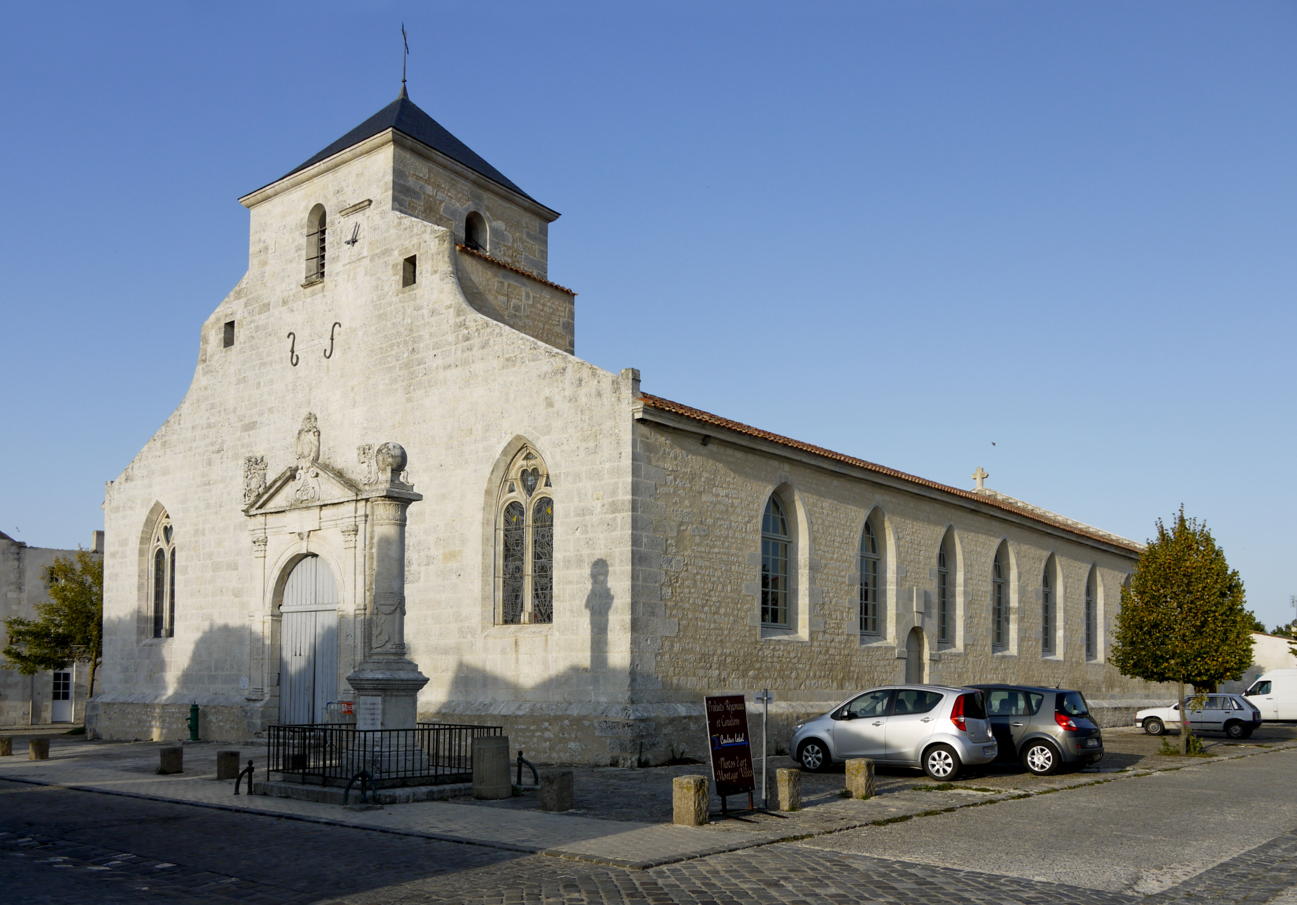 Église Saint-Pierre (Hiers-Brouage), Brouage, France.